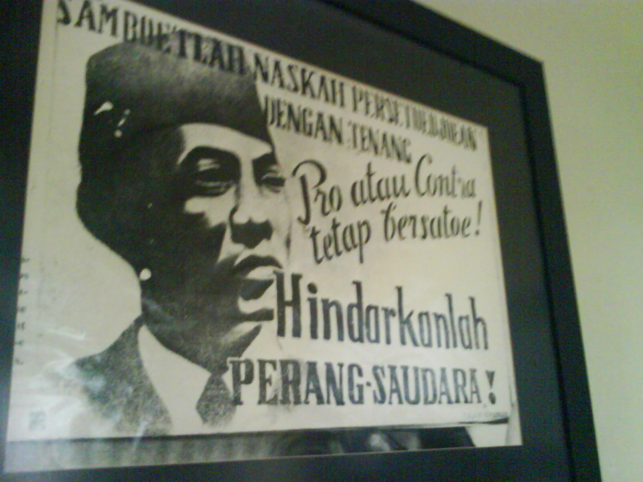 One of posters displayed in the Linggadjati Agreement building in Linggarjati, Kuningan.